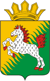 Siva rayon (Perm krai), coat of arms